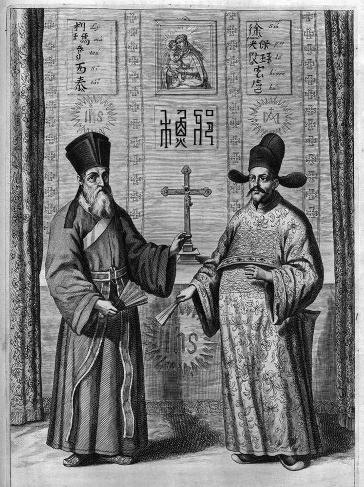 Matteo Ricci and Paul Xu Guangqi From Athanasius Kircher, La Chine … Illustrée, Amsterdam, 1670.